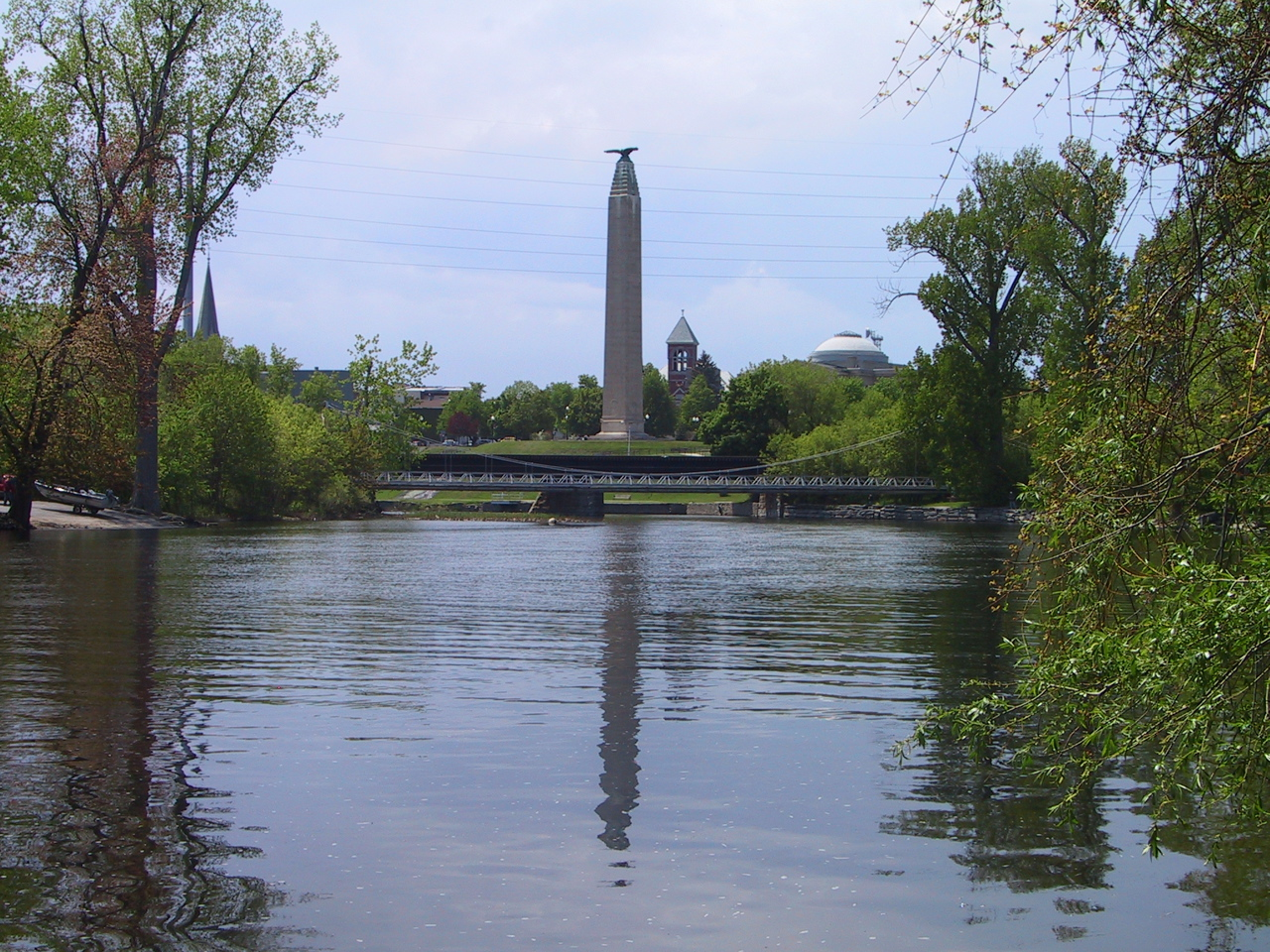 Obelisk in downtown Plattsburgh, NY, by the Saranac River where it flows into Lake Champlain.